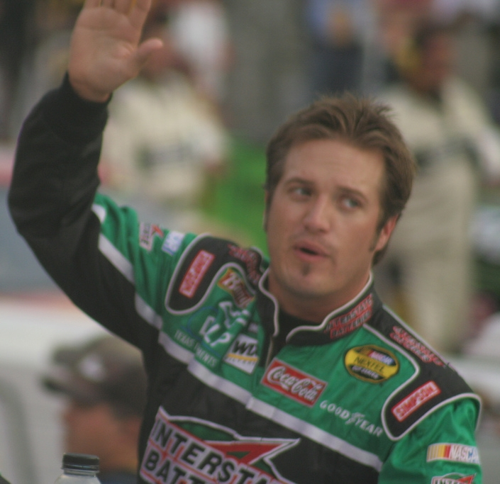 NASCAR driver J. J. Yeley in August 2007 at Bristol Motor Speedway. Cropped from original